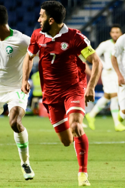 Match scene of Lebanon vs Saudi Arabia (Asian Cup 2019)